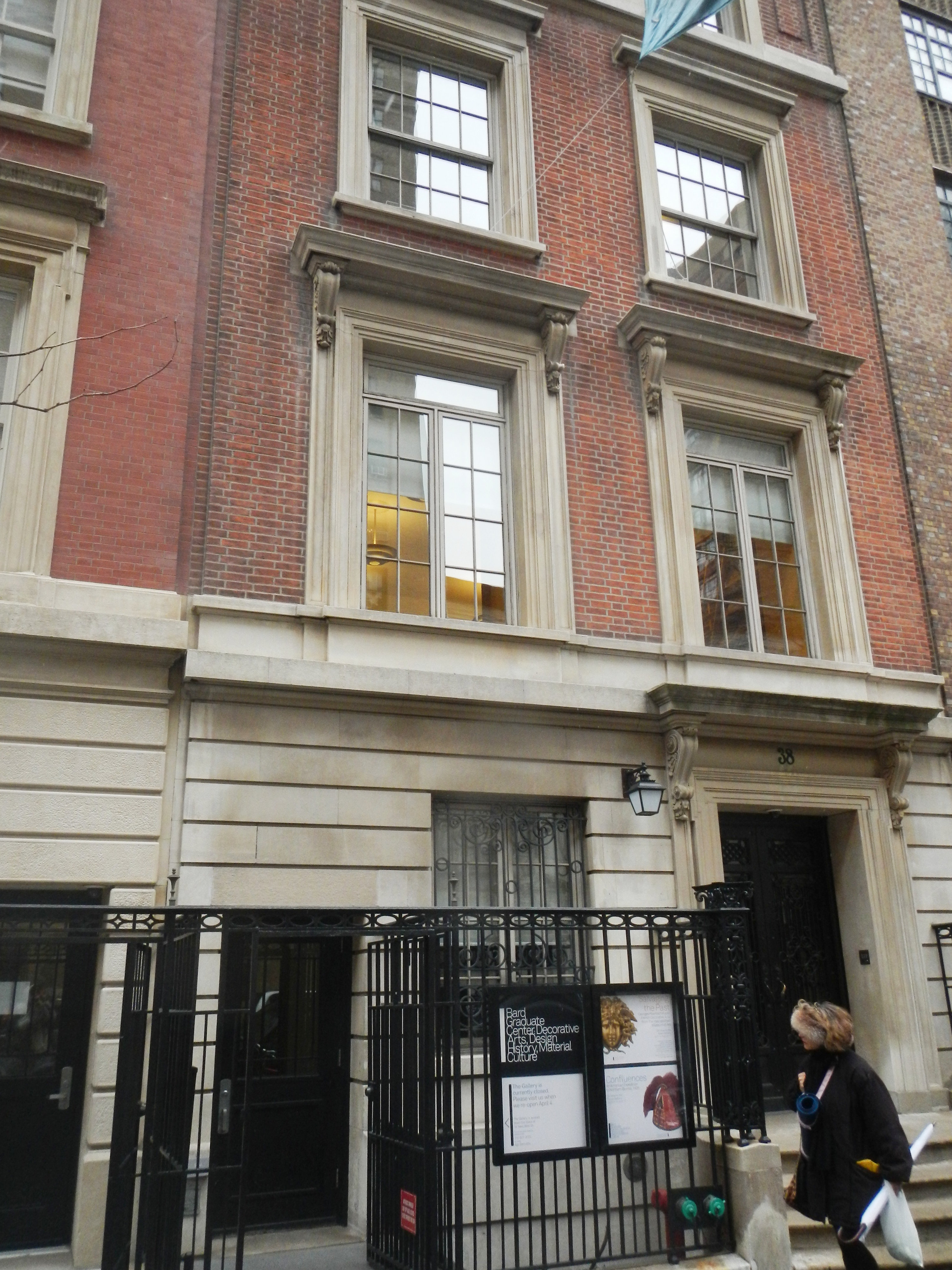 Looking northeast at Graduate Center on a cloudy day.